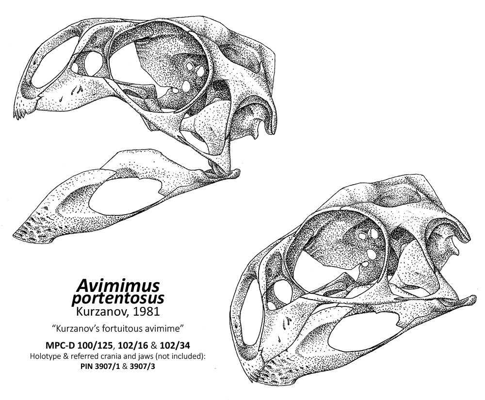 Avimimus skull restoration by Jaime Headden